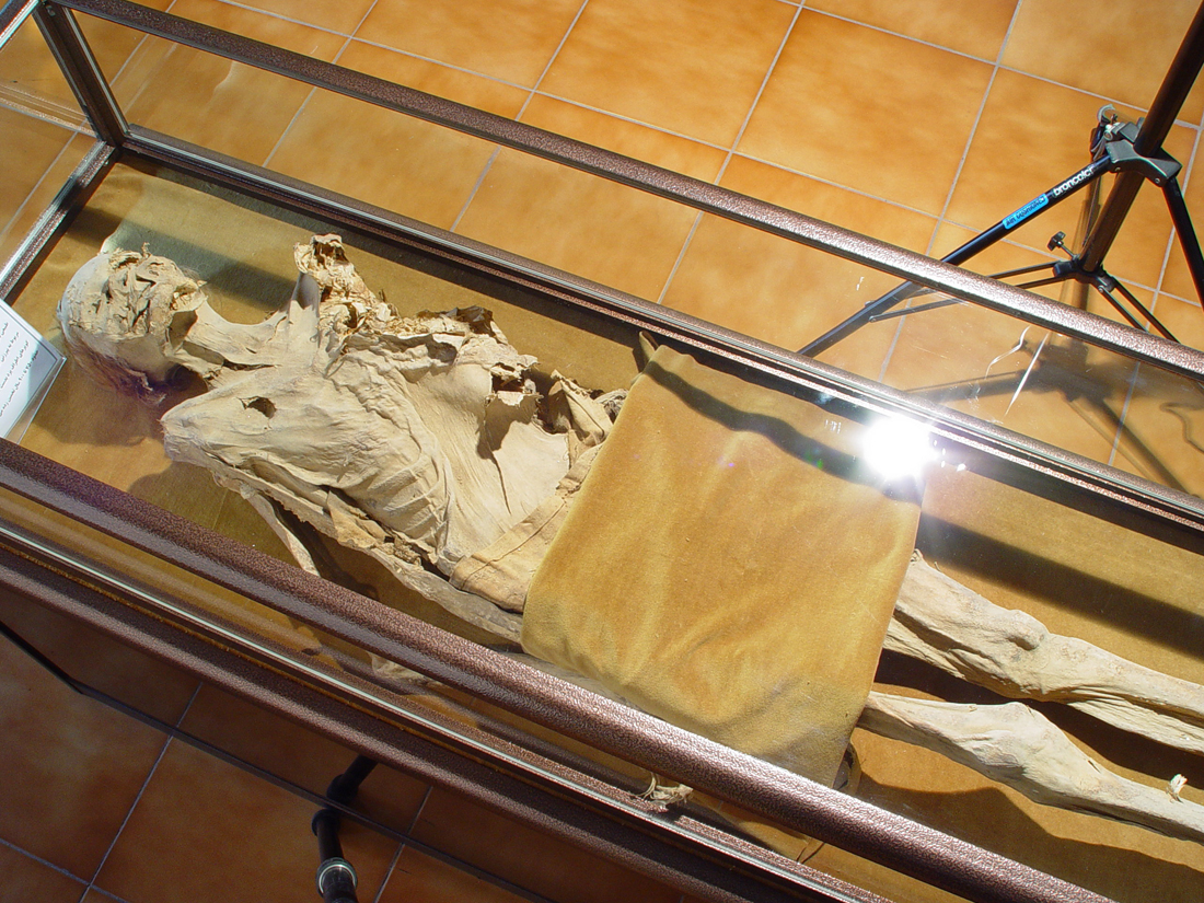 The Iranian National Museum of Medical Sciences History; Tehran; Iran (Founder: Dr. Maziar Ashrafian Bonab)